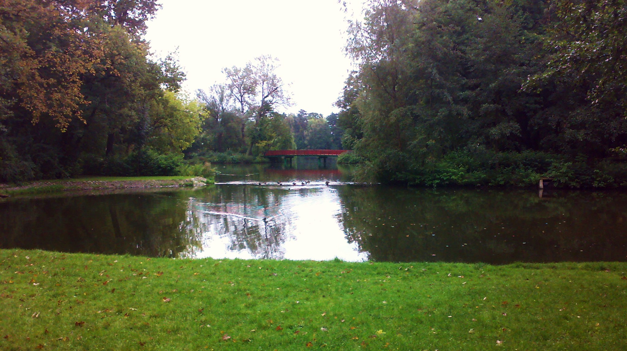 Little Solacki Pond in Poznan.